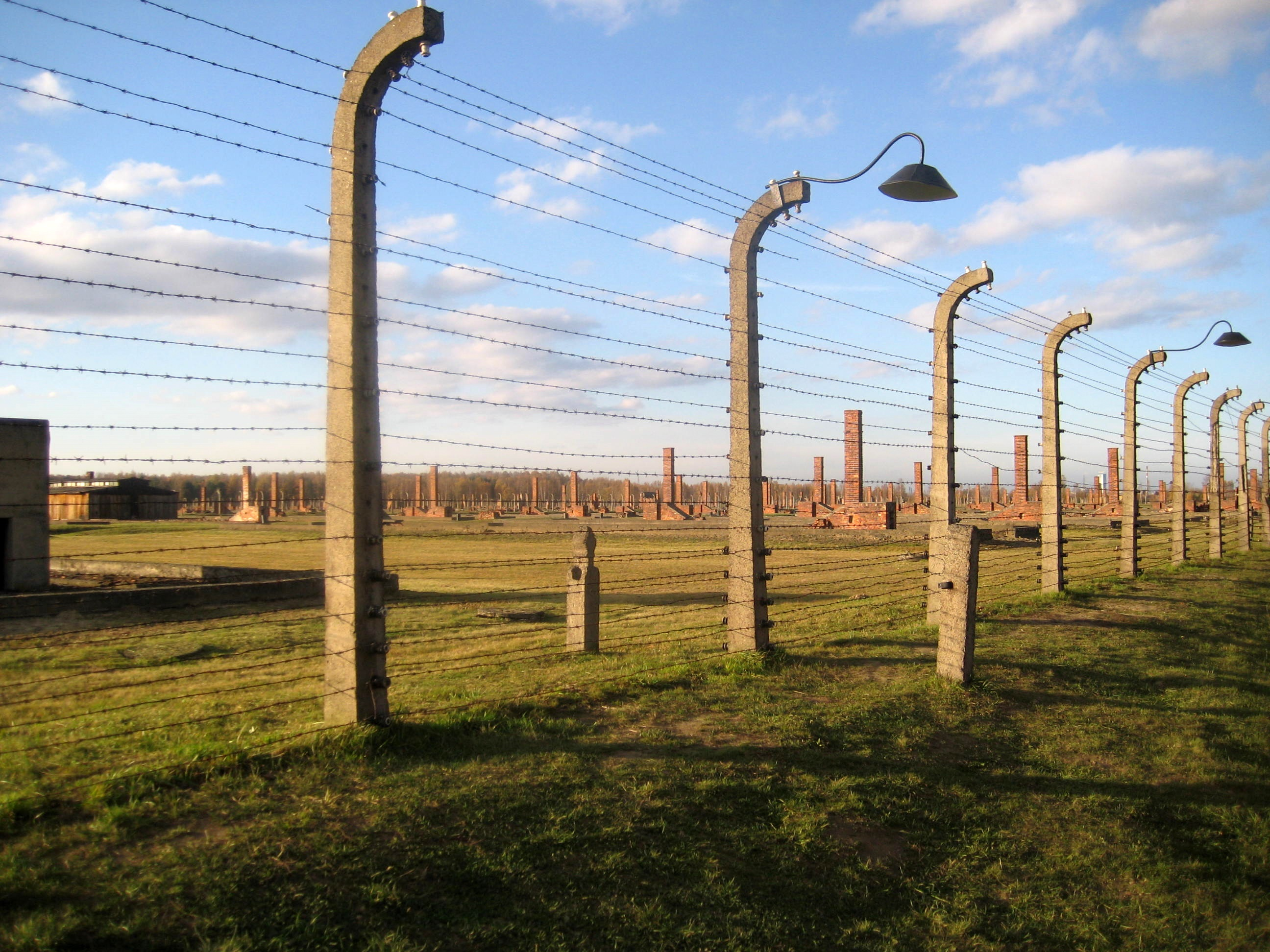 Fence in concentration camp Auschwitz Birkenau. The brick towers in the background are chimneys, the only remains of wooden barracks.